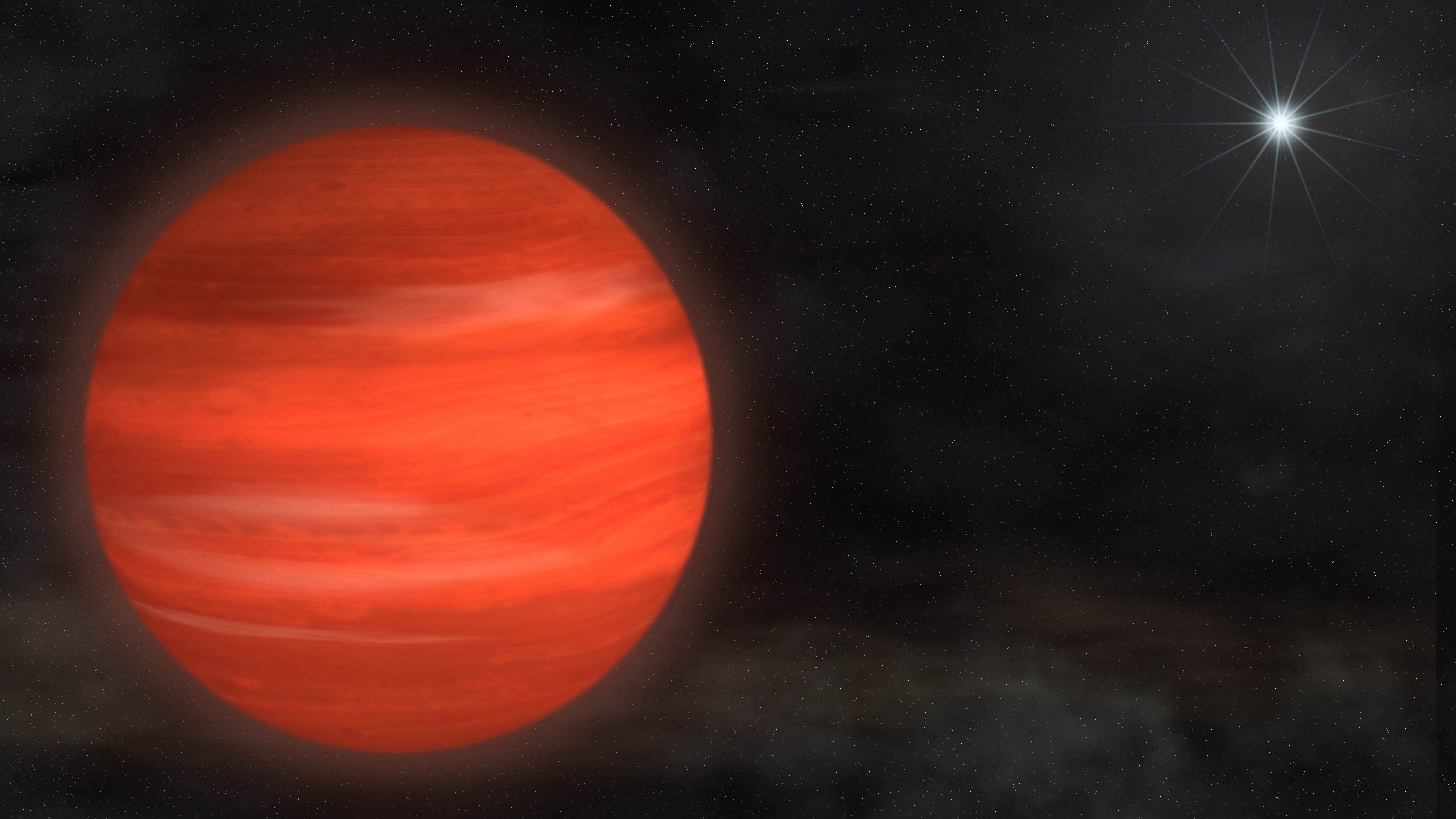 The "super-Jupiter" Kappa Andromedae b, shown here in an artist's rendering, circles its star at nearly twice the distance that Neptune orbits the sun. With a mass about 13 times Jupiter's, the object glows with a reddish color.